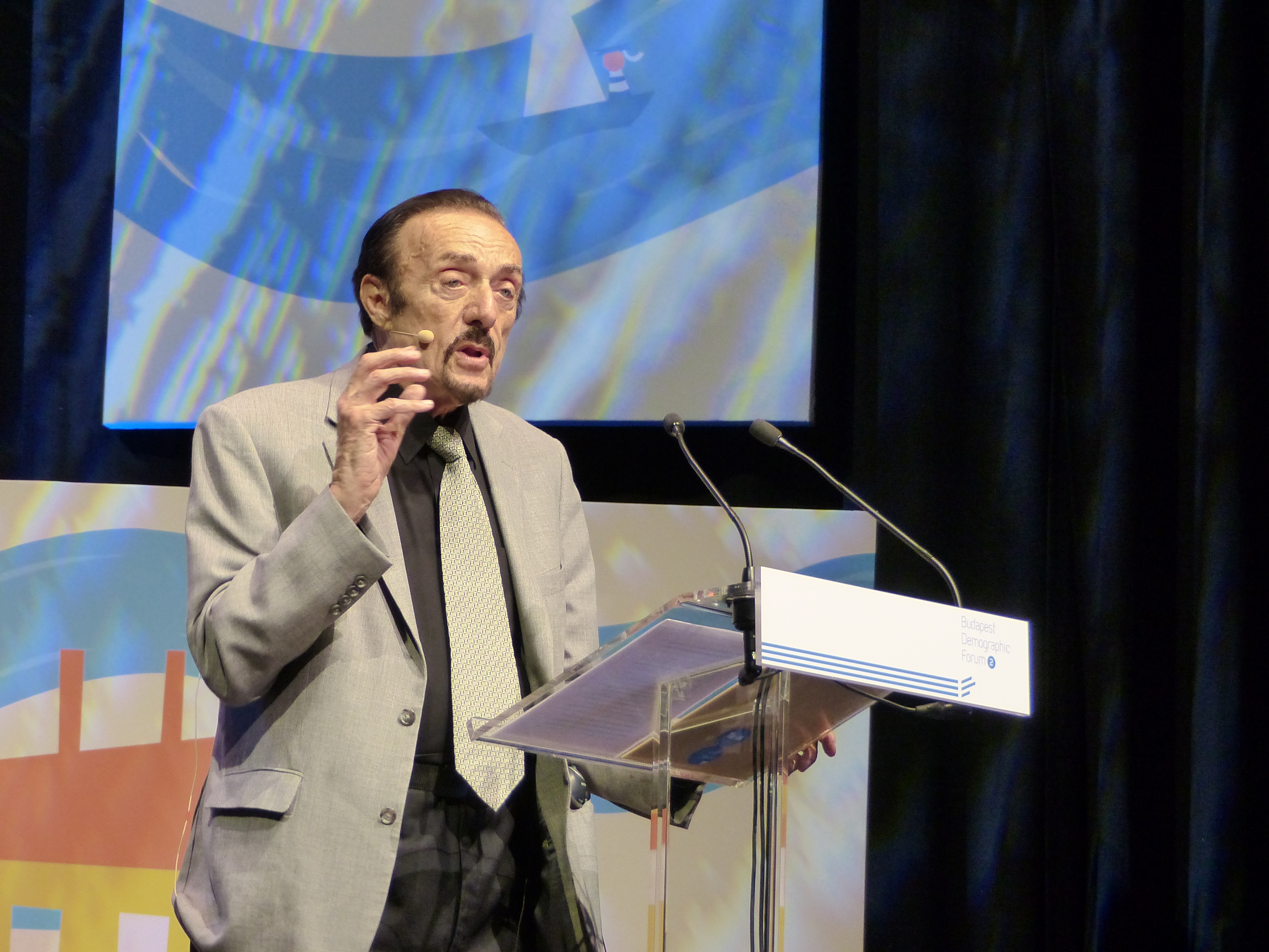 Philip Zimbardo - Man, Interrupted. Plenary meeting III. Professor Philip G. Zimbardo. Peter Merse, European Youth Workshop, Maria Waszkiewicz, European Youth Workshop, Gergely, Ekler Managing Director. New Generation. Taken on the 25th of May, 2017. Budapest Family Summit 25 – 28 May 2017. Budapest Demographic Forum 2.